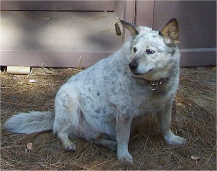 unusual light colored blue heeler